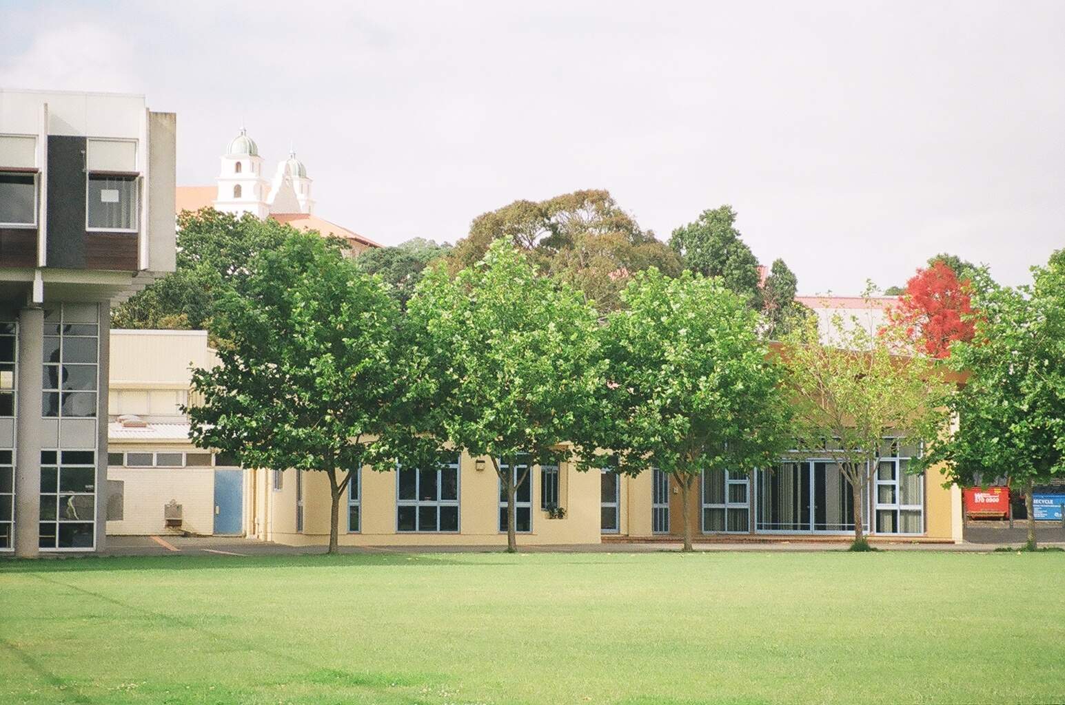 St Peter's College, Middle School and Bro Smith Music and Drama Suit